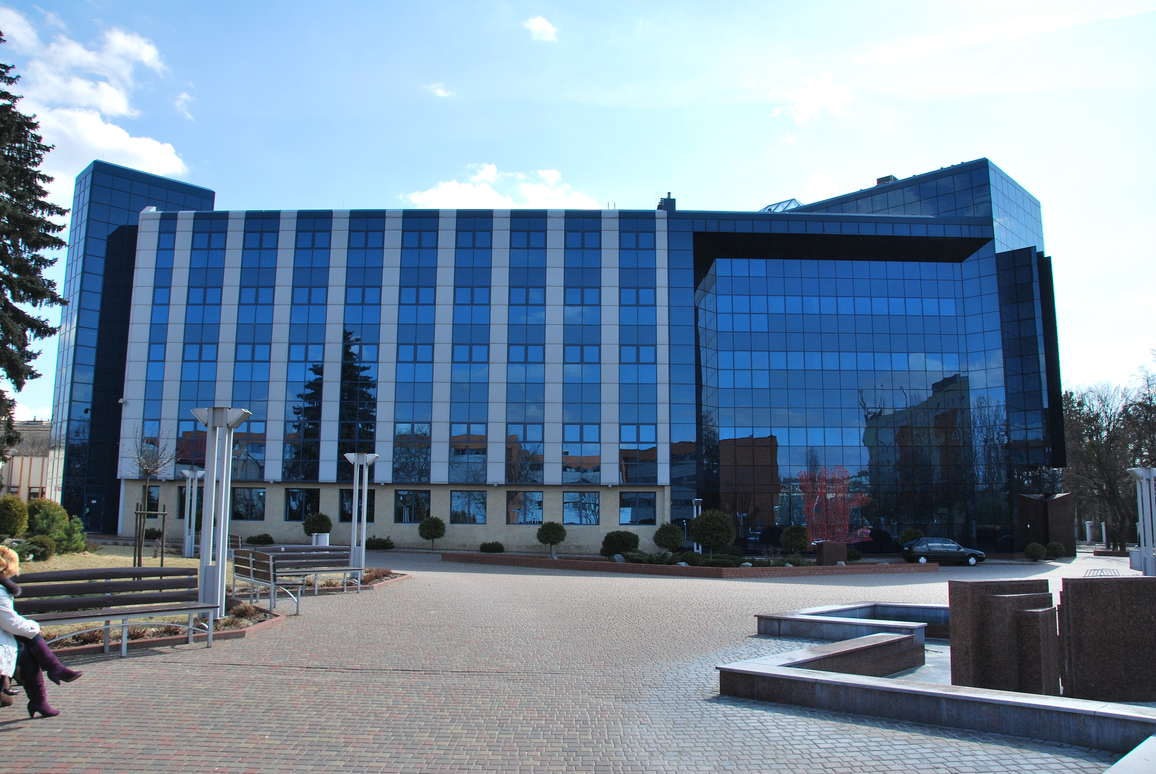 University of Łódź Library